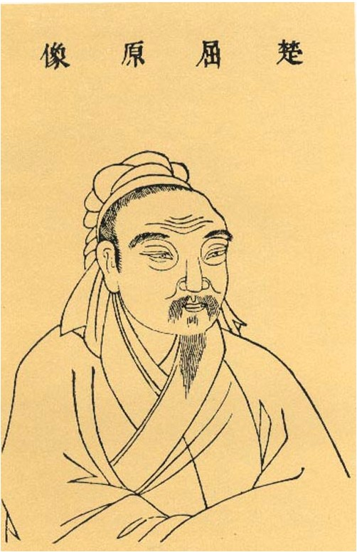 Qu Yuan was one of the greatest of classic Chinese poets. This image was featured in a book called Sancai Tuhui (三才图会), which was published during the reign of Wanli Emperor of the Ming Dynasty (明朝万历年间王圻).